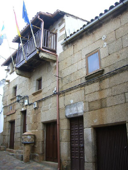 Ethnographic museum, Cilleros